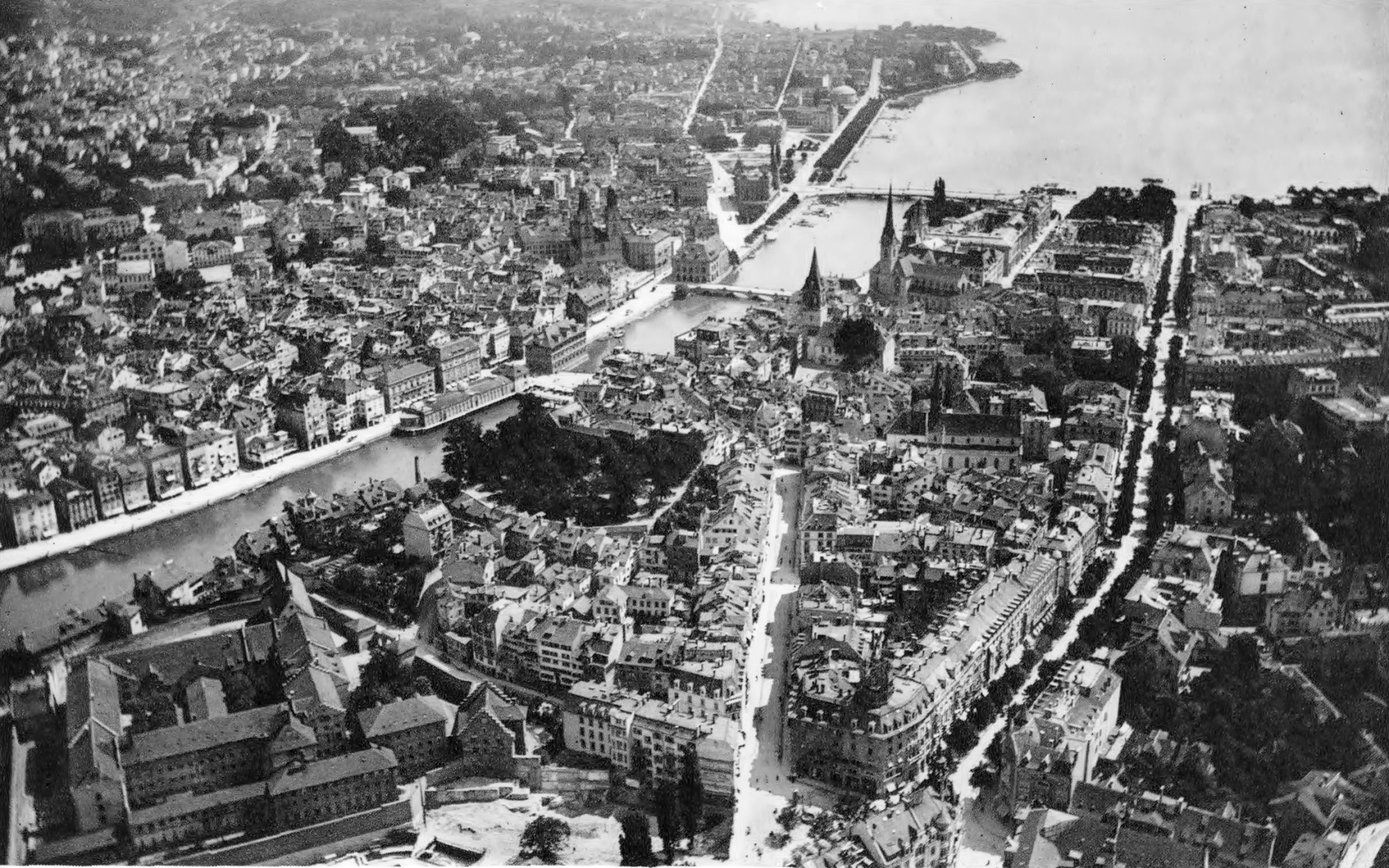 View of the city of Zürich, Switzerland, photographed from a balloon from about 500m above gound. View from north-west towards south-east.